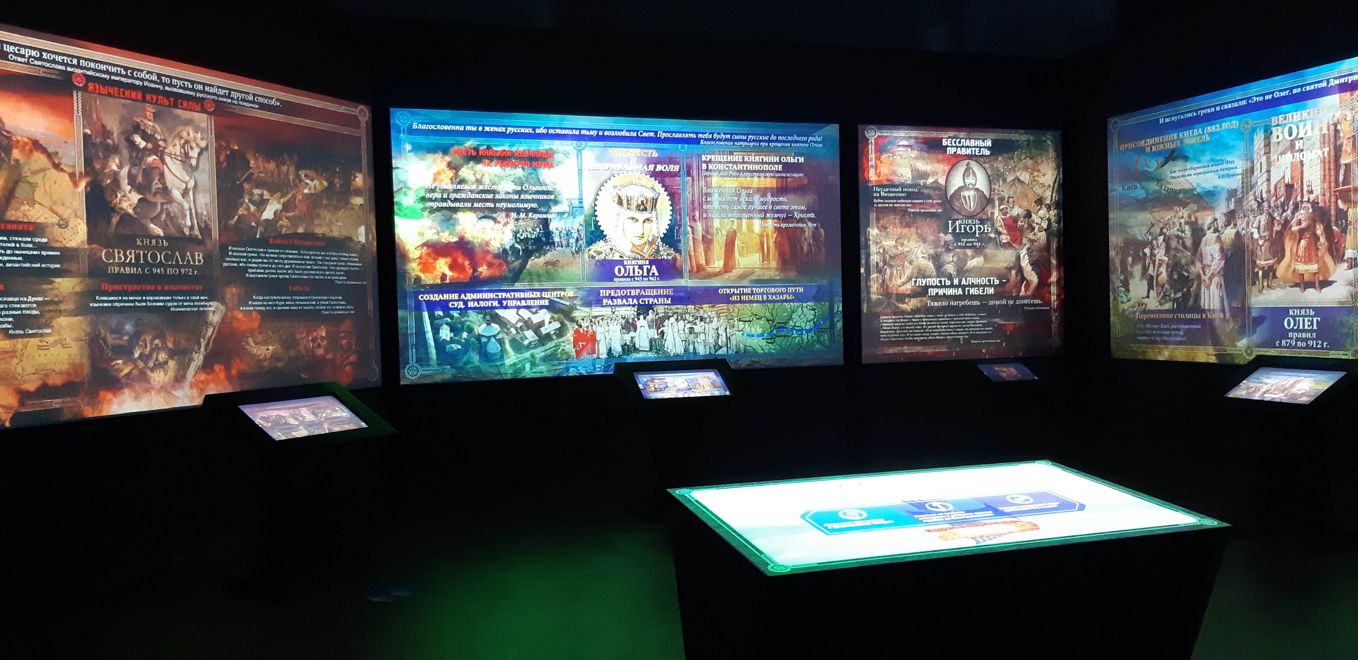 Interactive Hall - History of Ancient Russia